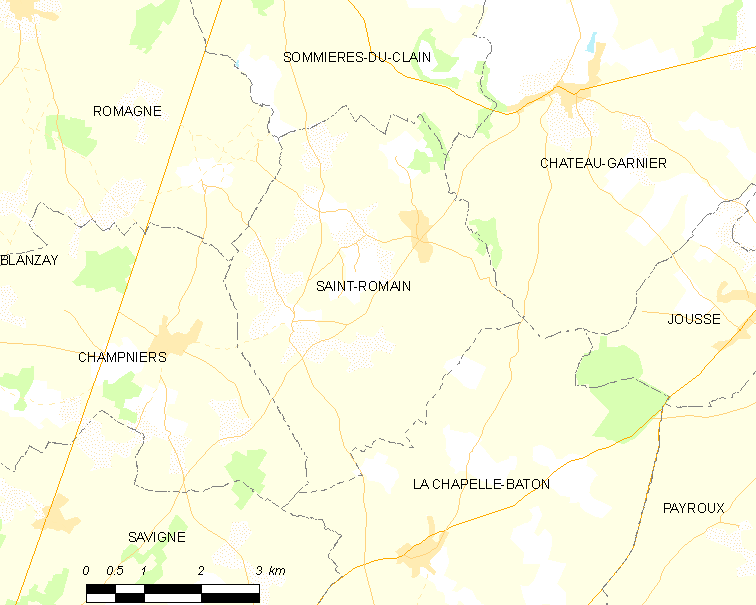 Map of French municipality Saint-Romain